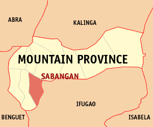 Map of Mountain Province showing the location of Sabangan